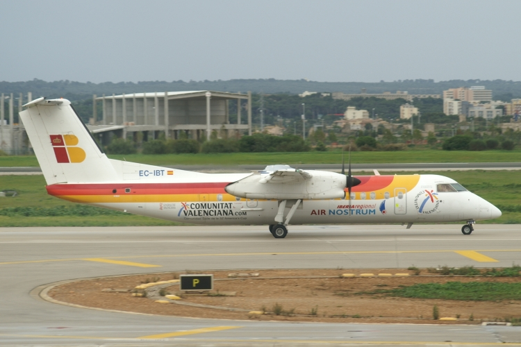 Air Nostrum Dash 8 EC-IBT at Palma de Mallorca Airport Son Sant Joan.